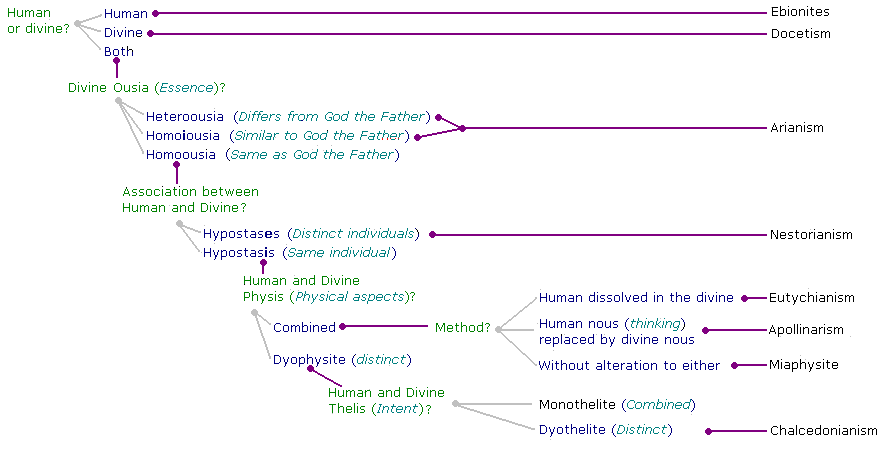 Chart explaining the various Christological positions, and their names, where appropriate